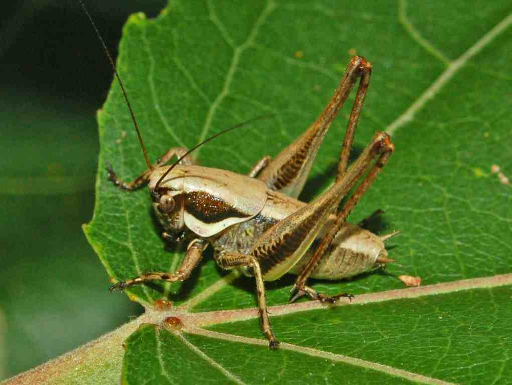 Pholidoptera fallax - young male